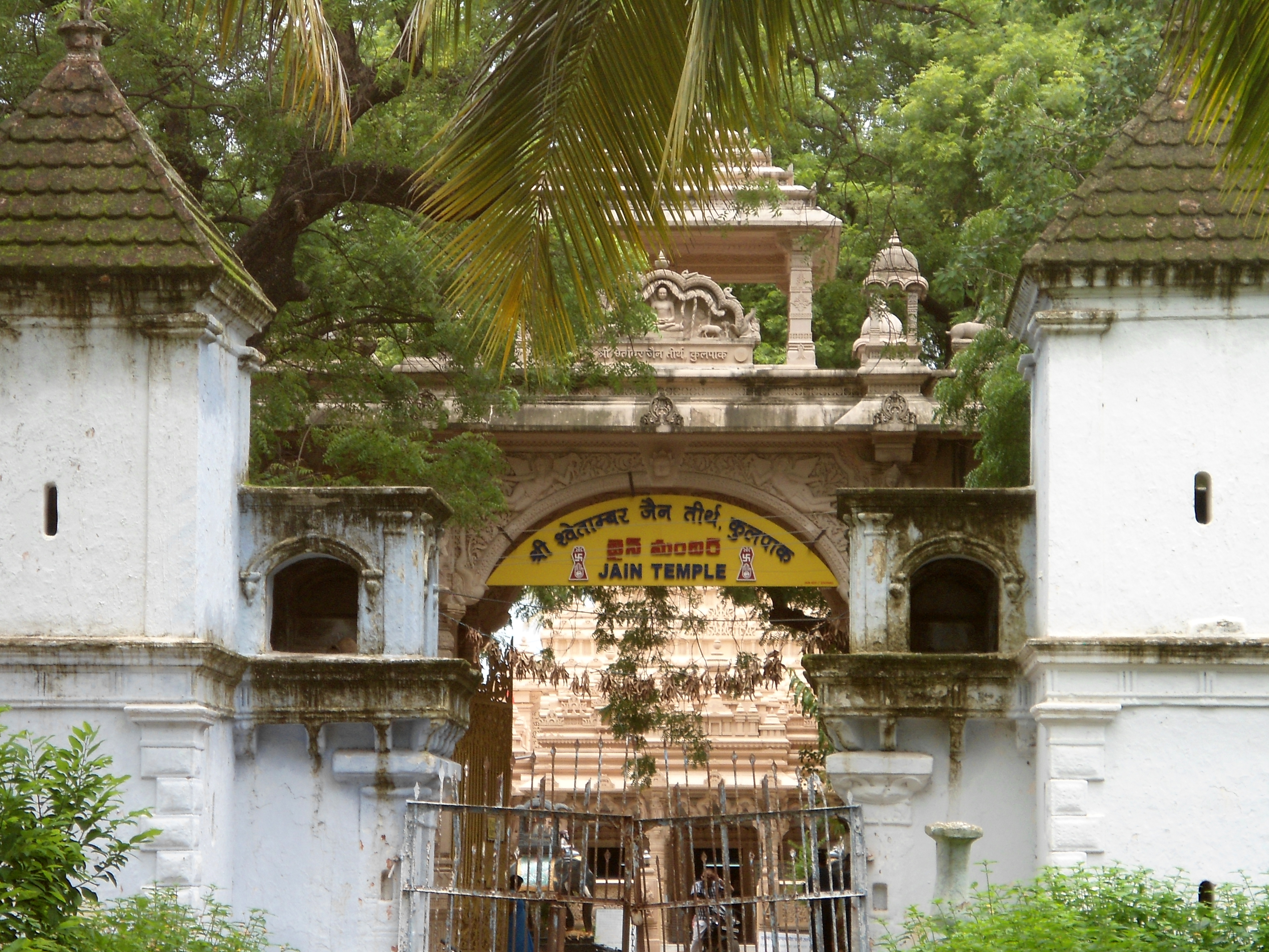 Kulpakji also Kolanupaka Temple is a Jain shrine at the village of Kolanupaka in Nalgonda district, Andhra Pradesh, India